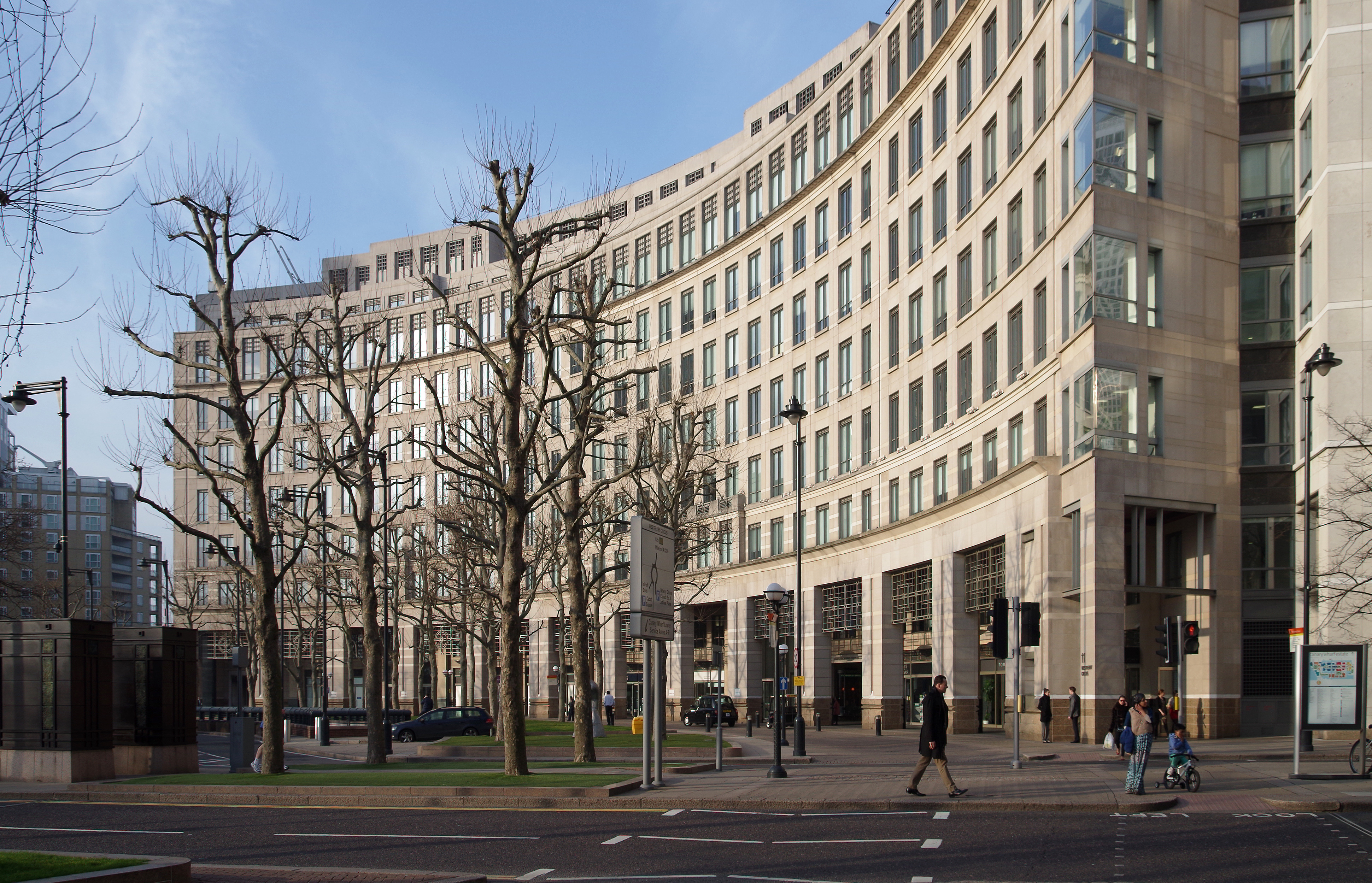 1 Westferry Circus in London.